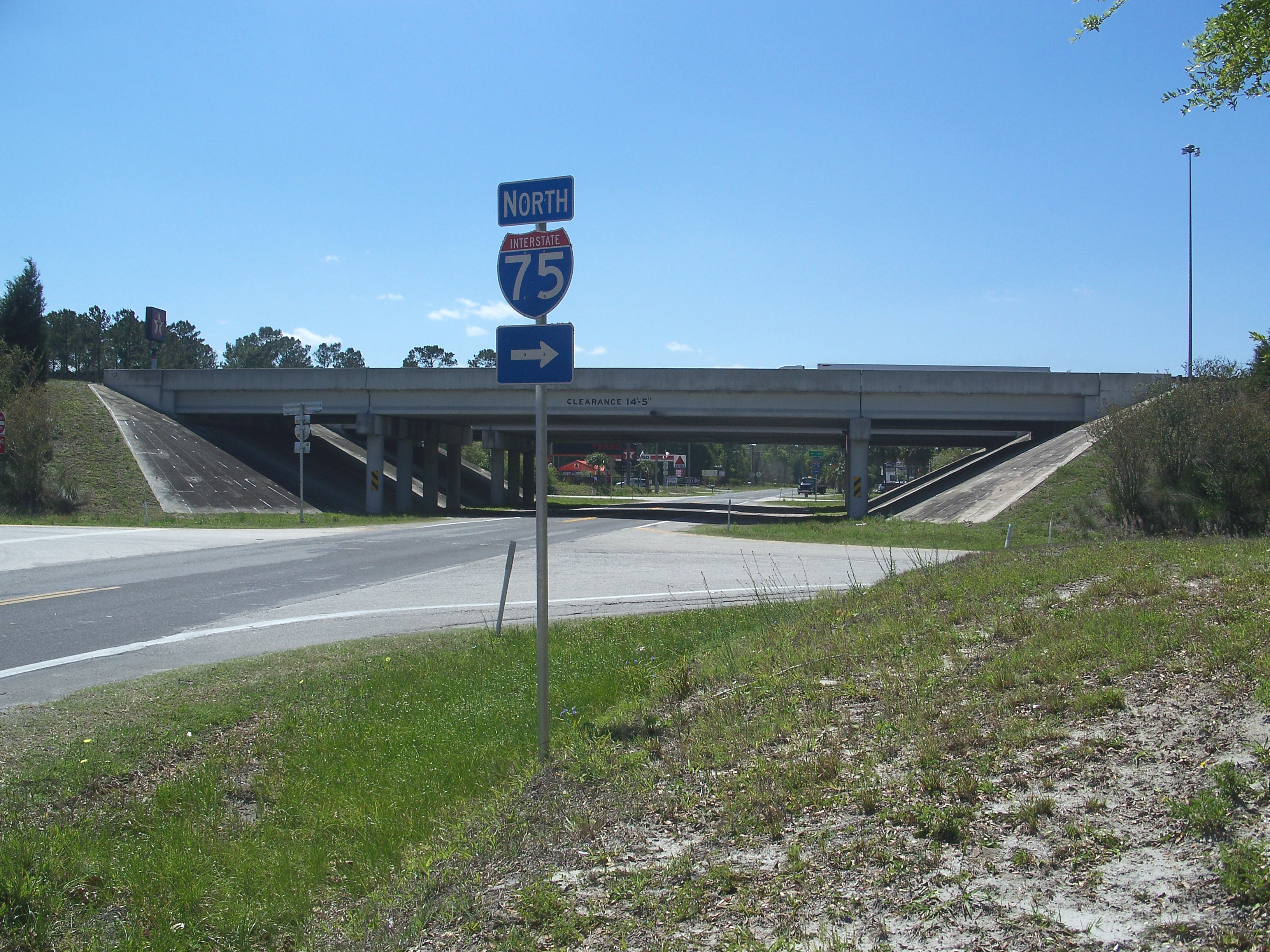 Alachua County, Florida: Interstate 75 overpass near Micanopy